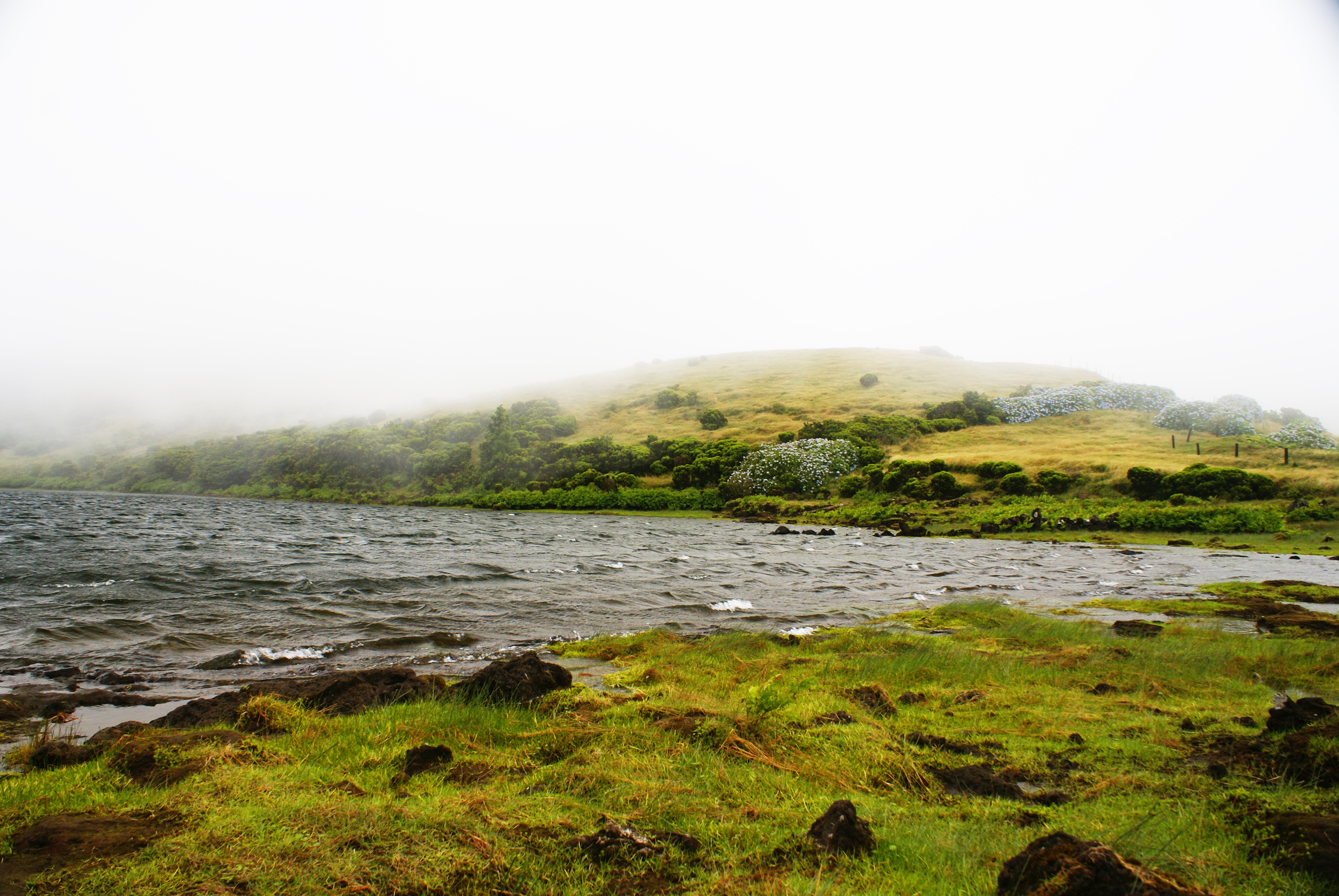 Lagoa do Landroal, as the fog descends from the headlands, , municipality of Lajes do Pico, island of Pico, Azores (Portugal)